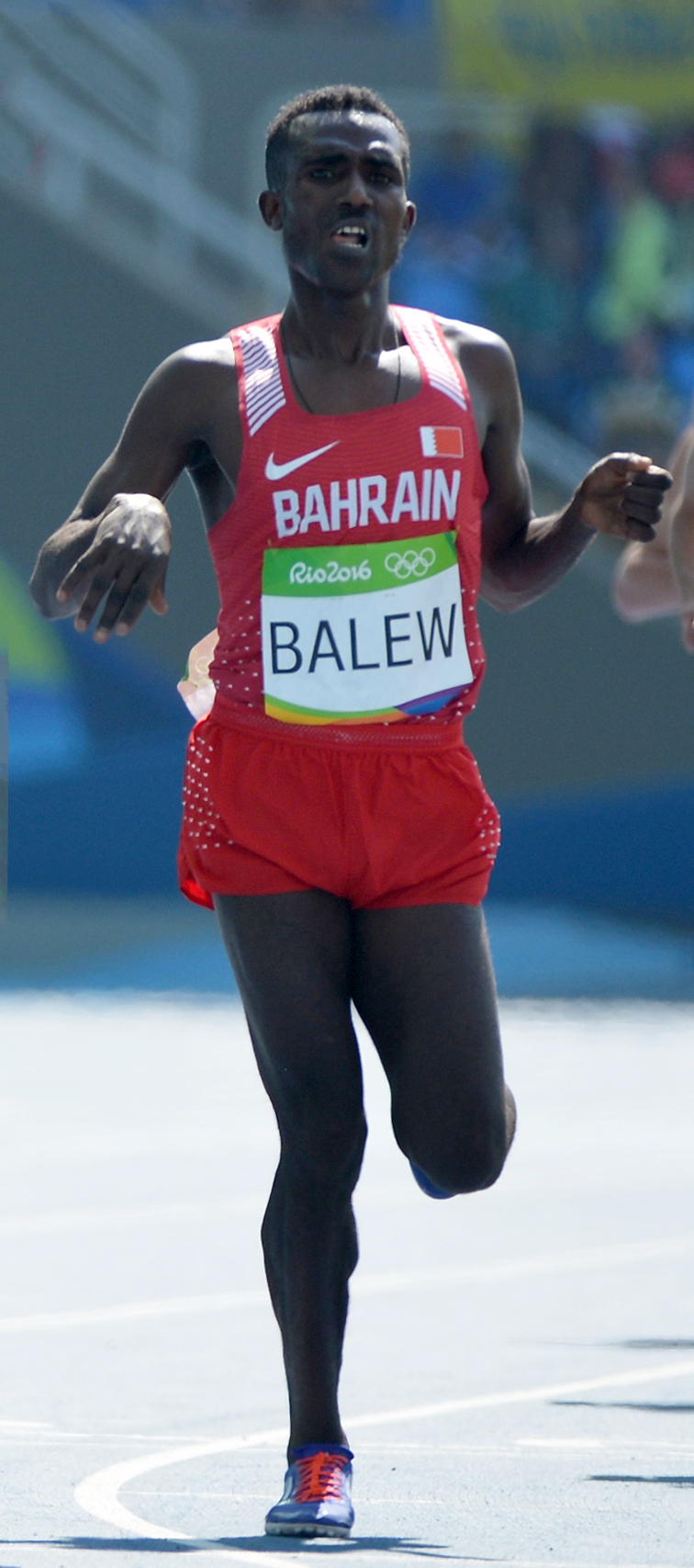 Birhanu Balew in the second heat of men's 5,000-meter run qualifying Wednesday, Aug. 17 at the Rio Olympic Games in Rio de Janeiro. U.S. Army photo by Tim Hipps, IMCOM Public Affairs #SoldierOlympians #ArmyOlympians #ArmyTeam #GoArmy #TeamUSA #RoadToRio #Olympics #ArmyStrong